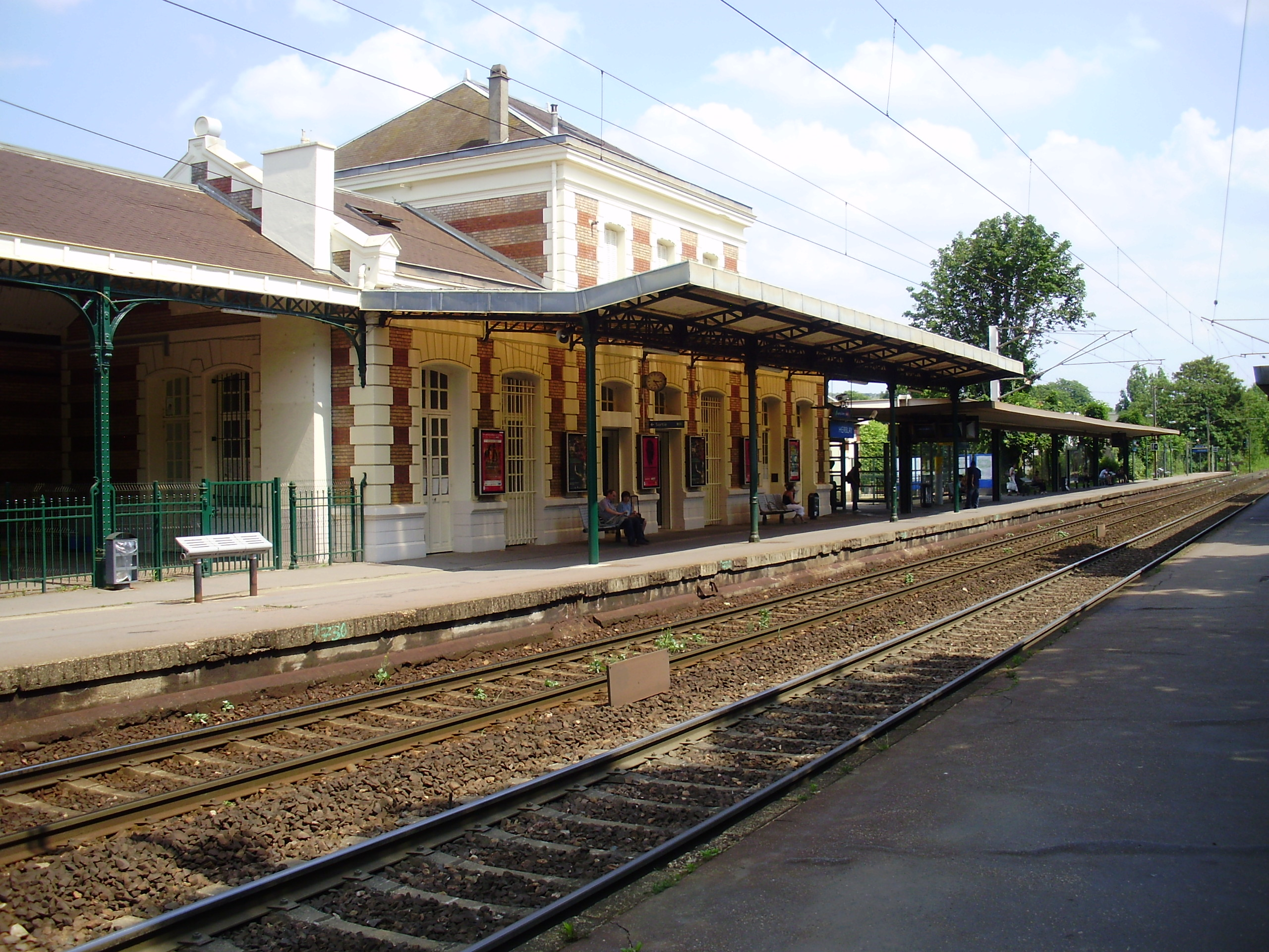 Herblay station, Val-d'Oise, France (view of platform to Paris)